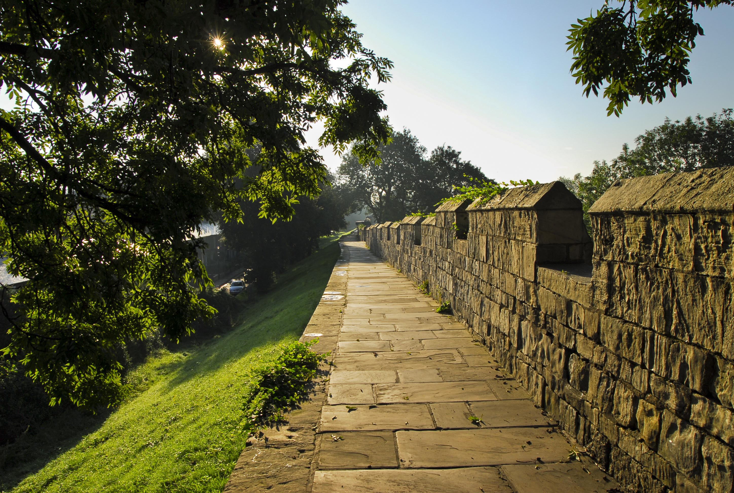 Medieval city wall in York